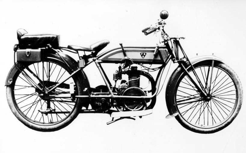 Frühes Bücker Motorrad mit 250 ccm Columbus Motor